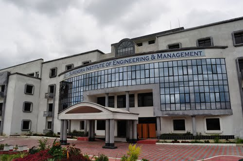 Siliguri surendra Institute of engineering & Management